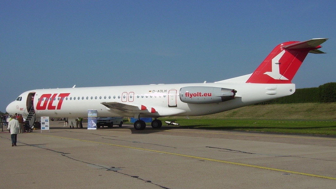 A Fokker 100 of the German airline OLT with the registration D-AOLH